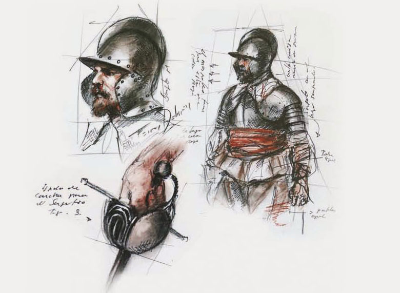 Bocetos rocroi 1